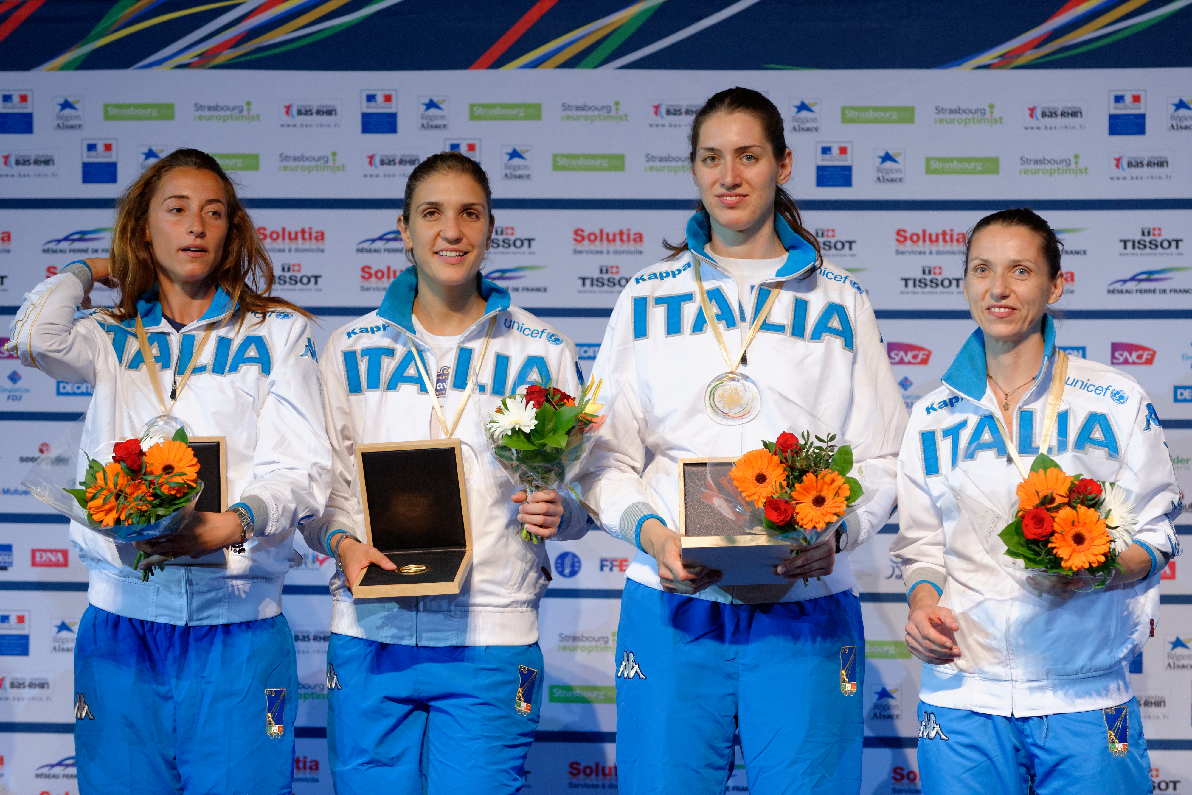 Italy (from left to right: Elisa Di Francisca, Arianna Errigo, Martina Batini, and Valentina Vezzali) at the award ceremony of the women's team foil event at the European Fencing Championships at Rhénus Sport in Strasbourg on 14 June 2014.